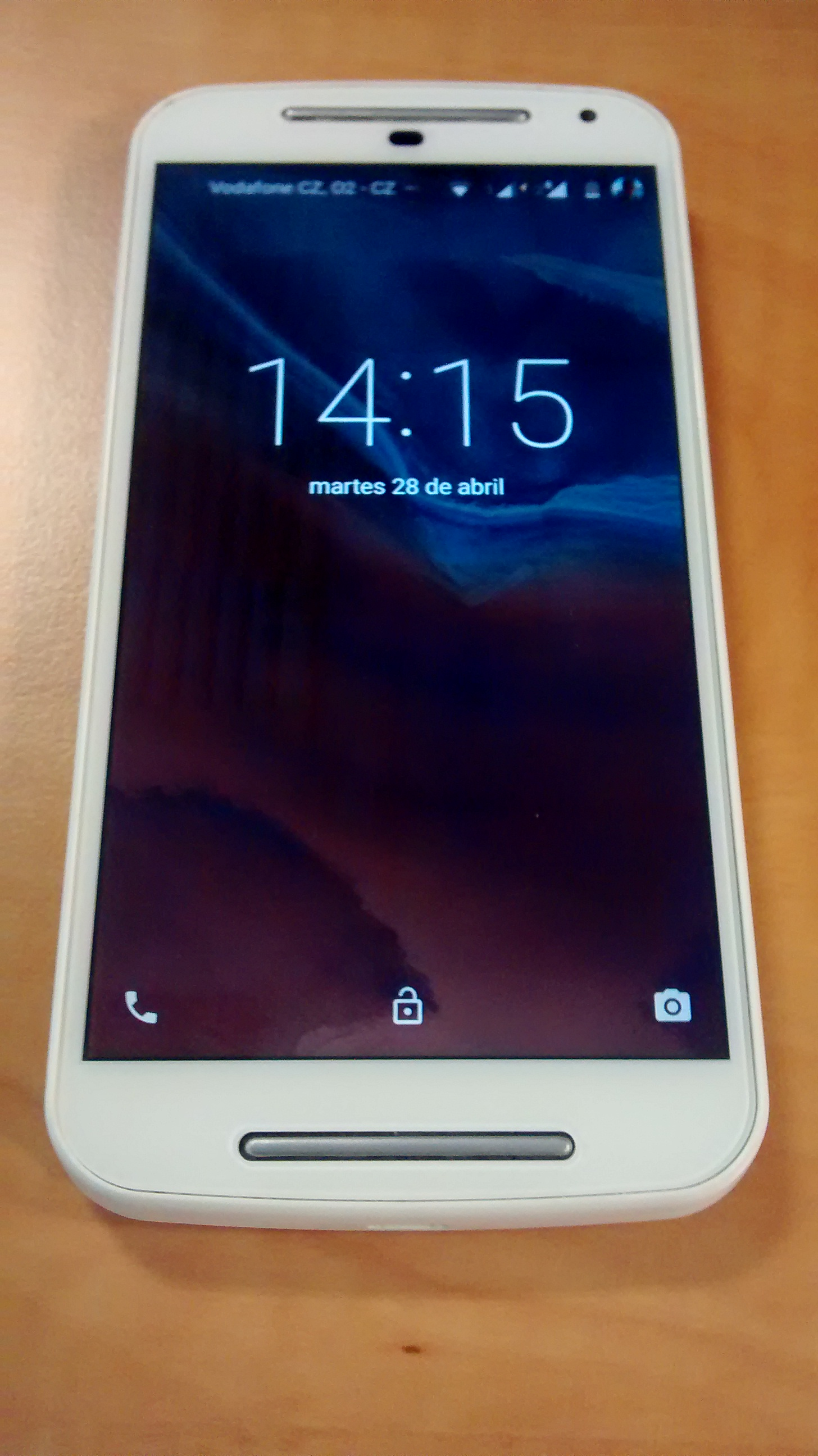 Motorola smartphone - front view Moto G (second generation)